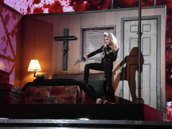 Madonna concert in Barcelona